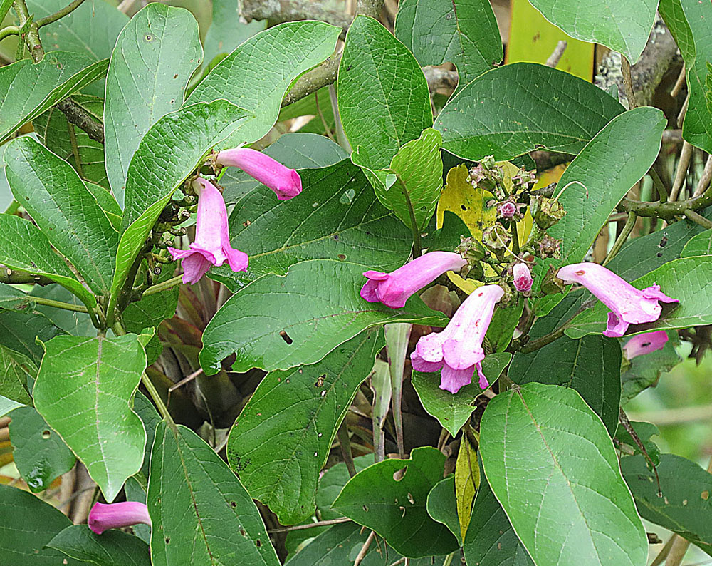 A widespread species in the Neotropics. Photo from near Baeza, Ecuador.